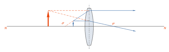 Object: Description: Author: Panther, uploaded here by Maksim Created: 12 Feb 2005 Source: Drawn by Panther using Corel Draw!